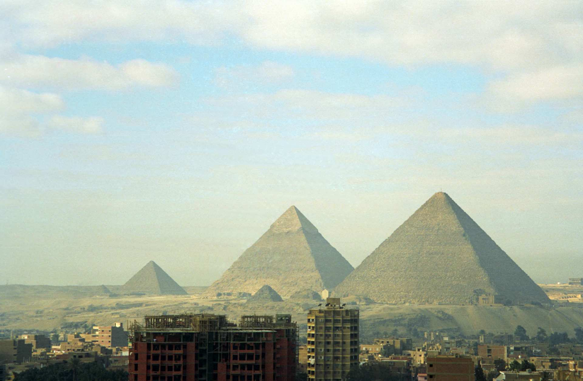 Great Pyramid of Giza